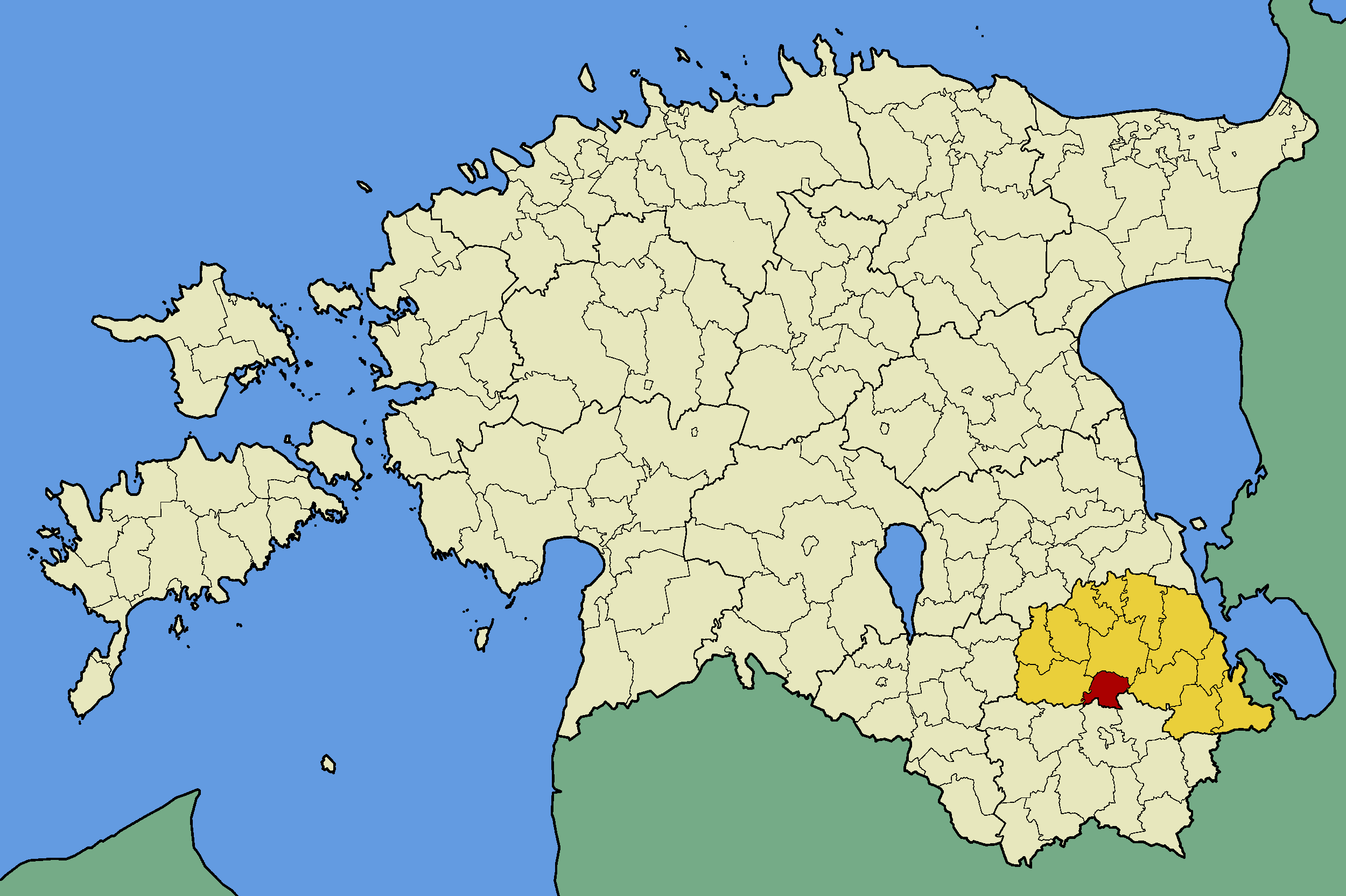 Map of Estonia with borders of municipalities (parishes). Põlva county and Laheda municipality emphasized.